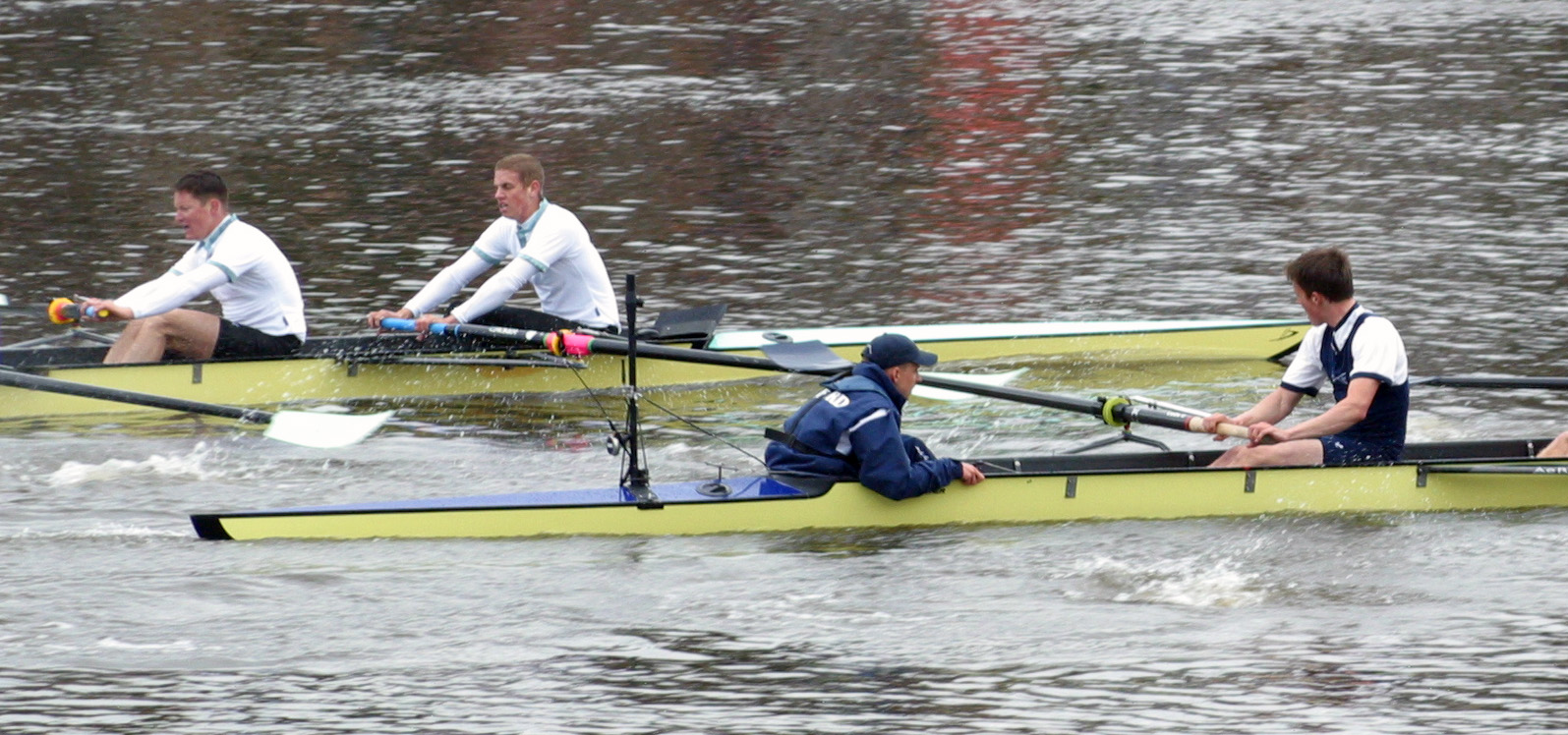 Image of Oxford & Cambridge Boat Race 2003, illustrating close contact without blades clashing, just upstream of Barnes Railway Bridge, seen from the North (Middlesex) side of the course. Taken by User:Pointillist and released into the public domain with no restrictions on re-use.